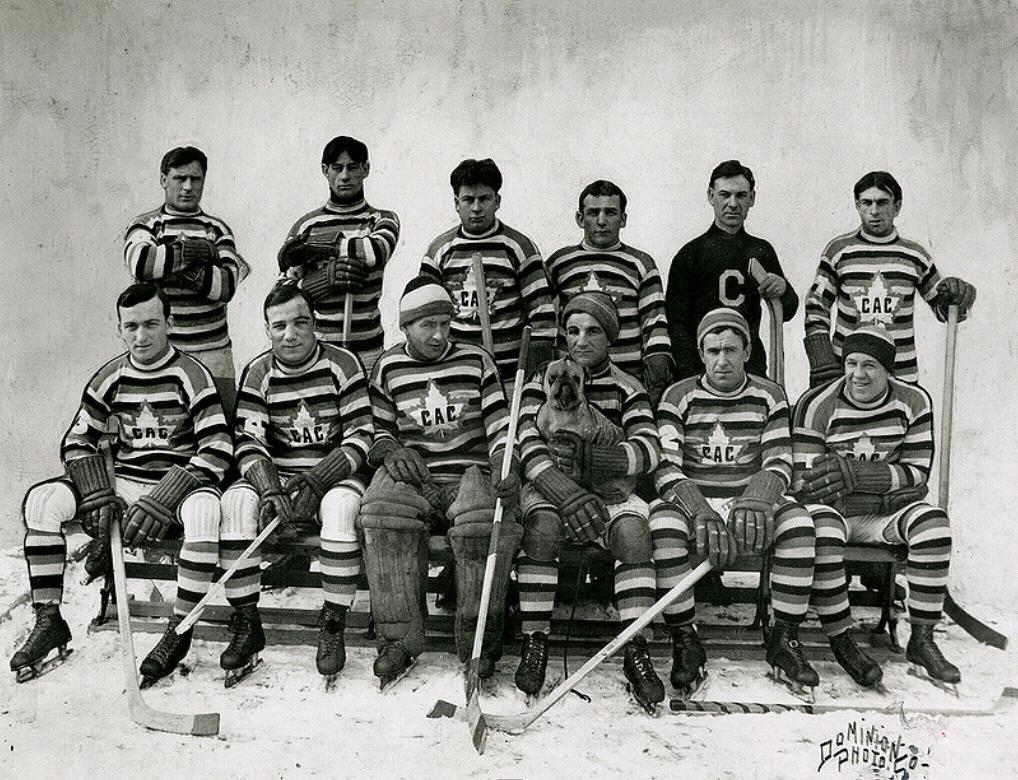 The Montreal Canadiens of the National Hockey Association during the 1912–13 NHA season. It was the Canadiens fourth season as an ice hockey team. First rank, left to right: Donald Smith, Newsy Lalonde, Georges Vezina, Jack Laviolette, Ernest Dubeau, Didier Pitre Second rank, left to right: Louis Berlinguette, Pete Degrowy, Cy Denneny, Shorty Coderre, X and Hector Dallaire